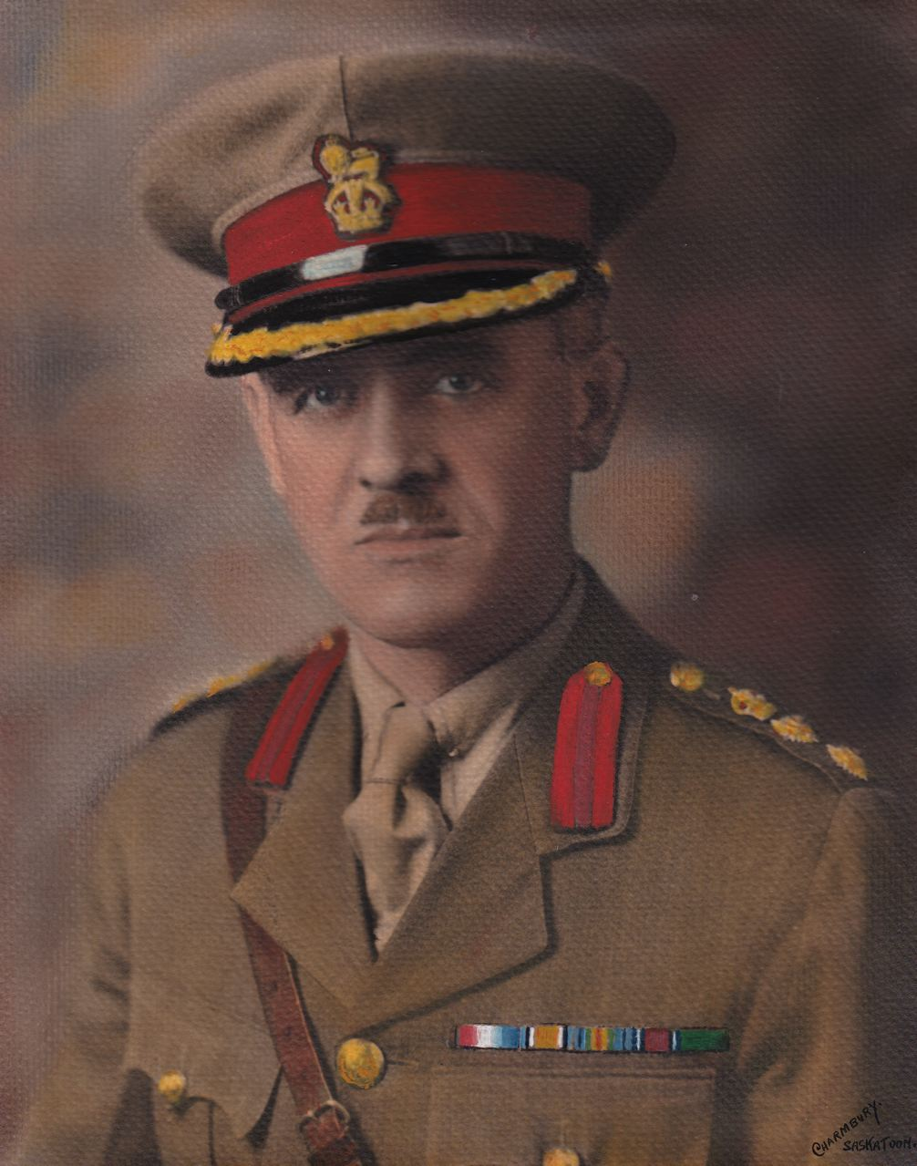 Colonel Arthur Edward Potts ~ 1933